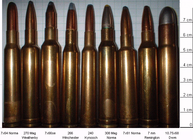 My picture ( Lax) 7x64 270 Mag 7x66Se 266 Win 240 308 Mag 7x61 7mm Rem 10.75x68